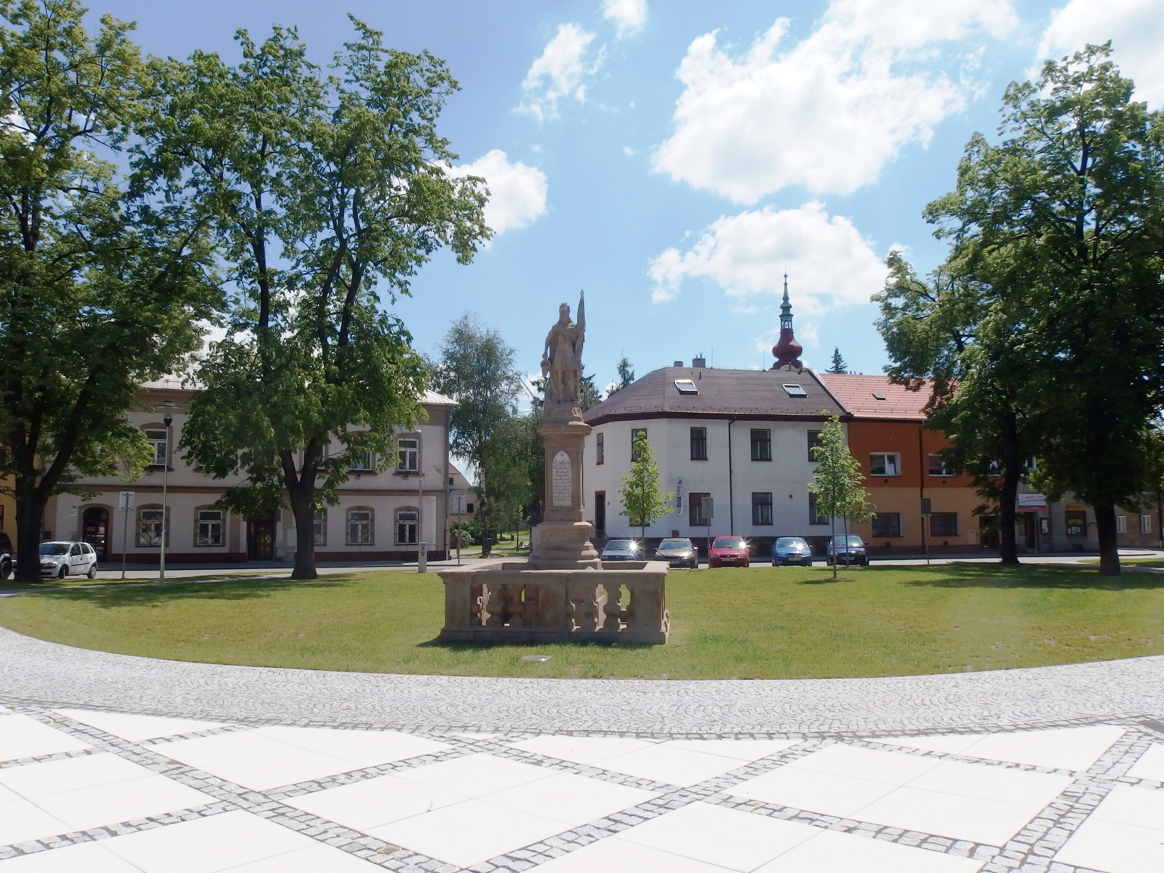 Hulín, Kroměříž District, Czech Republic. Square.